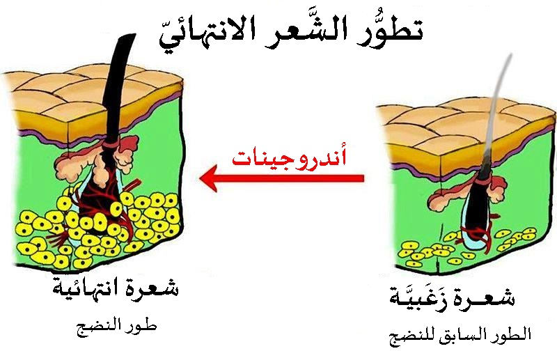 development of terminal hair